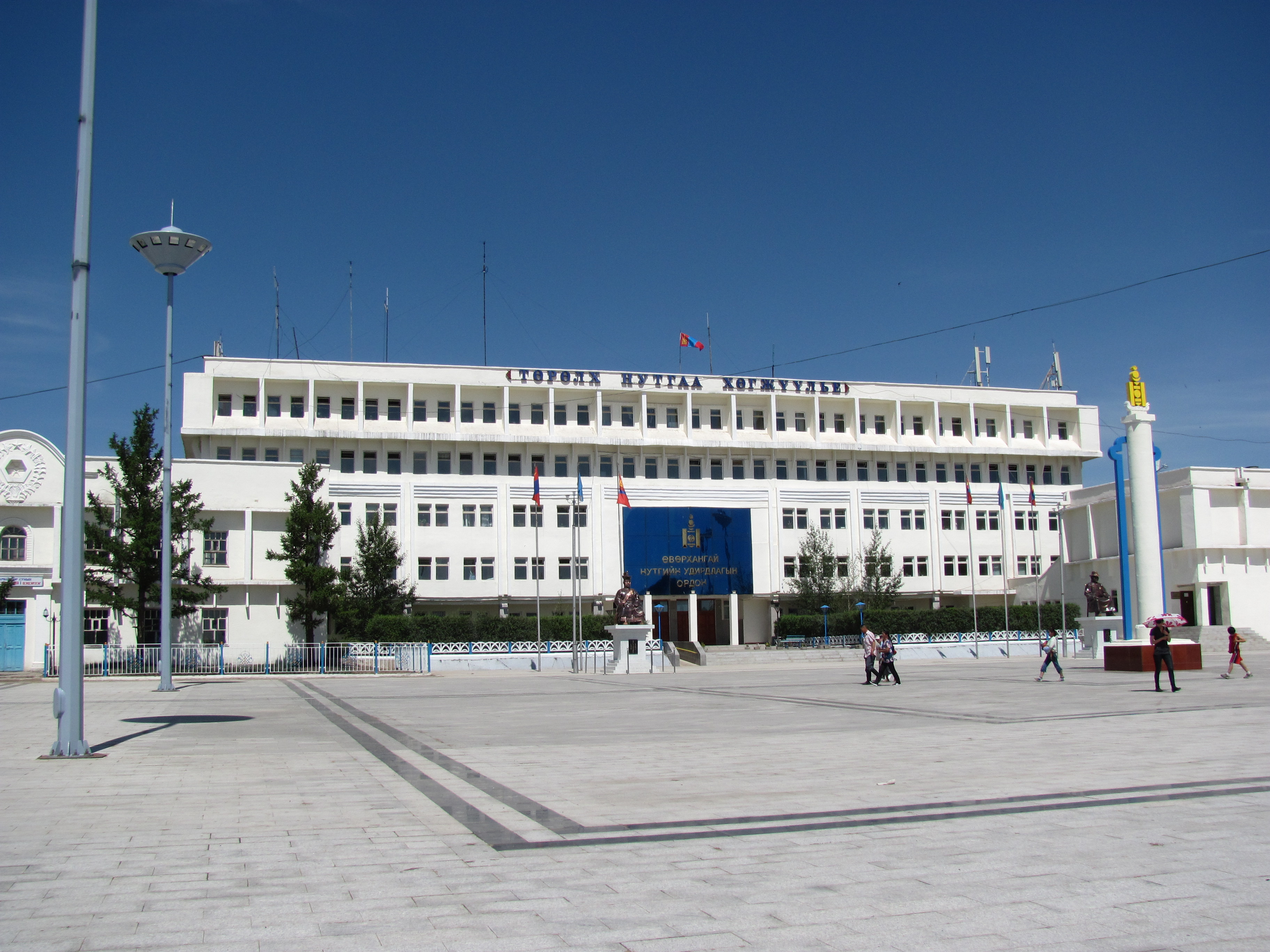 Central Square, Arvaikher, Mongolia.